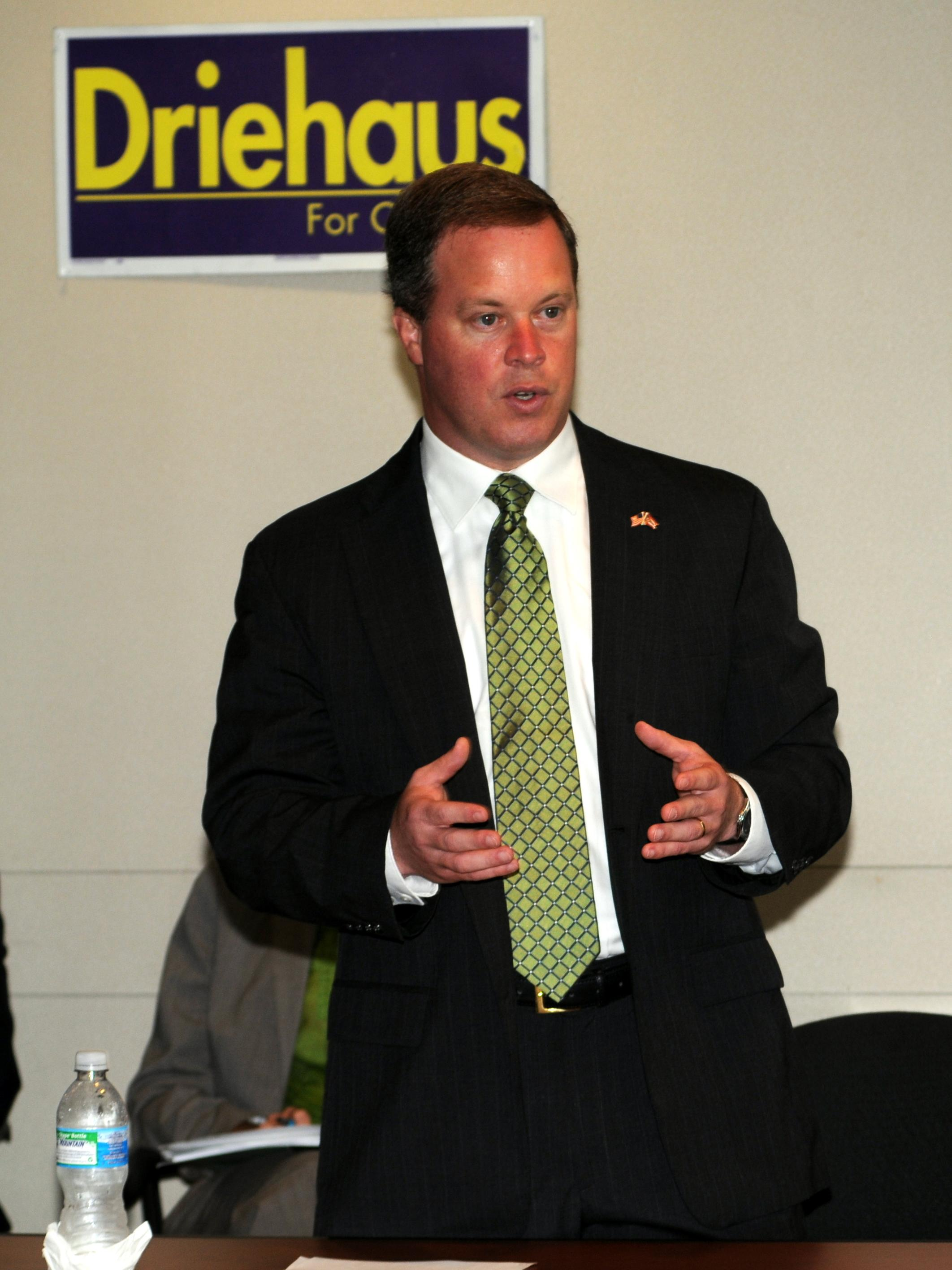 Steve Driehaus